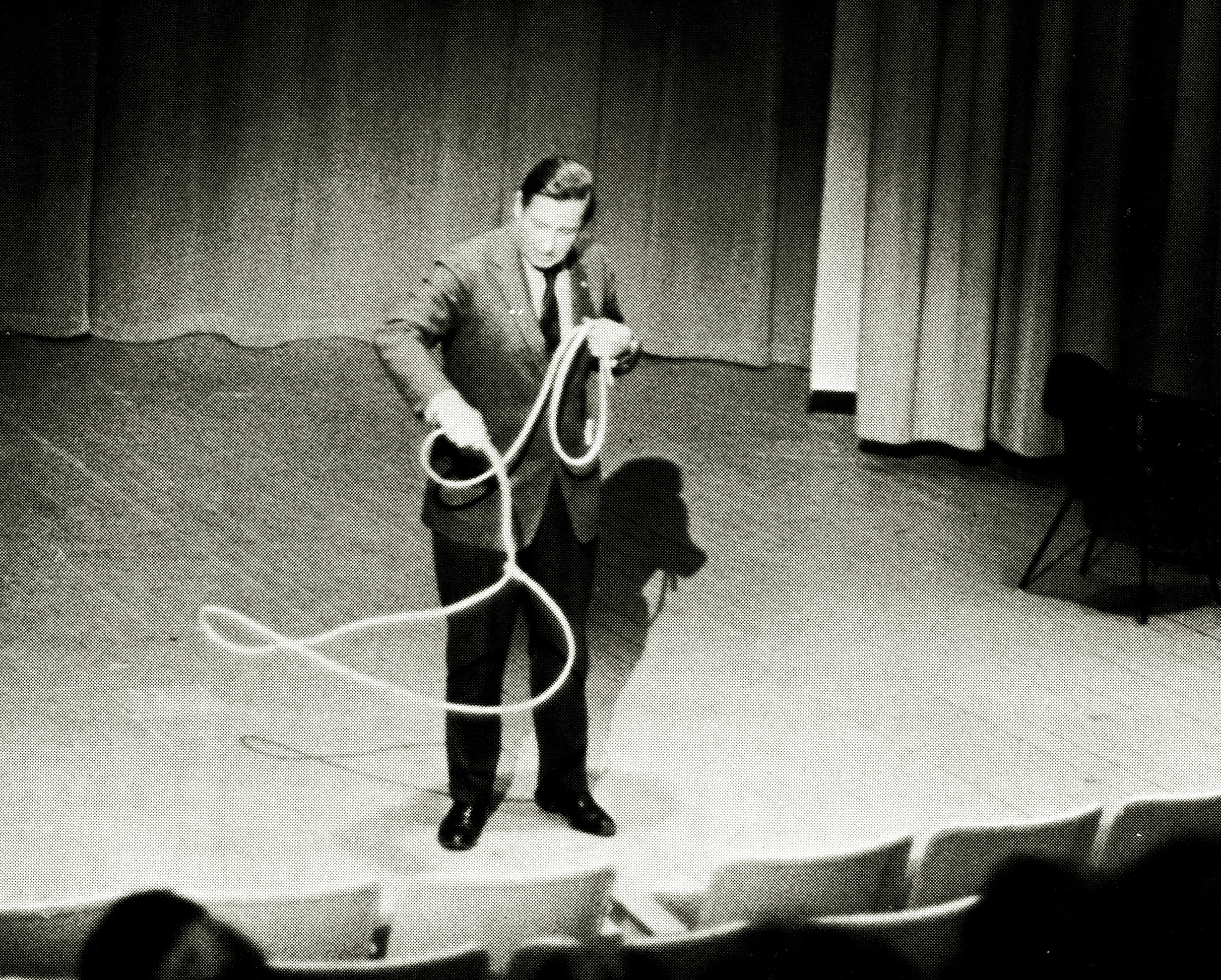 Will Rogers, Jr. spent two weeks touring Alaska during the later part of 1967 or early part of 1968. In this photo, he is on stage at the Grant Hall auditorium at Alaska Methodist University, showing attendees tricks with a lasso.